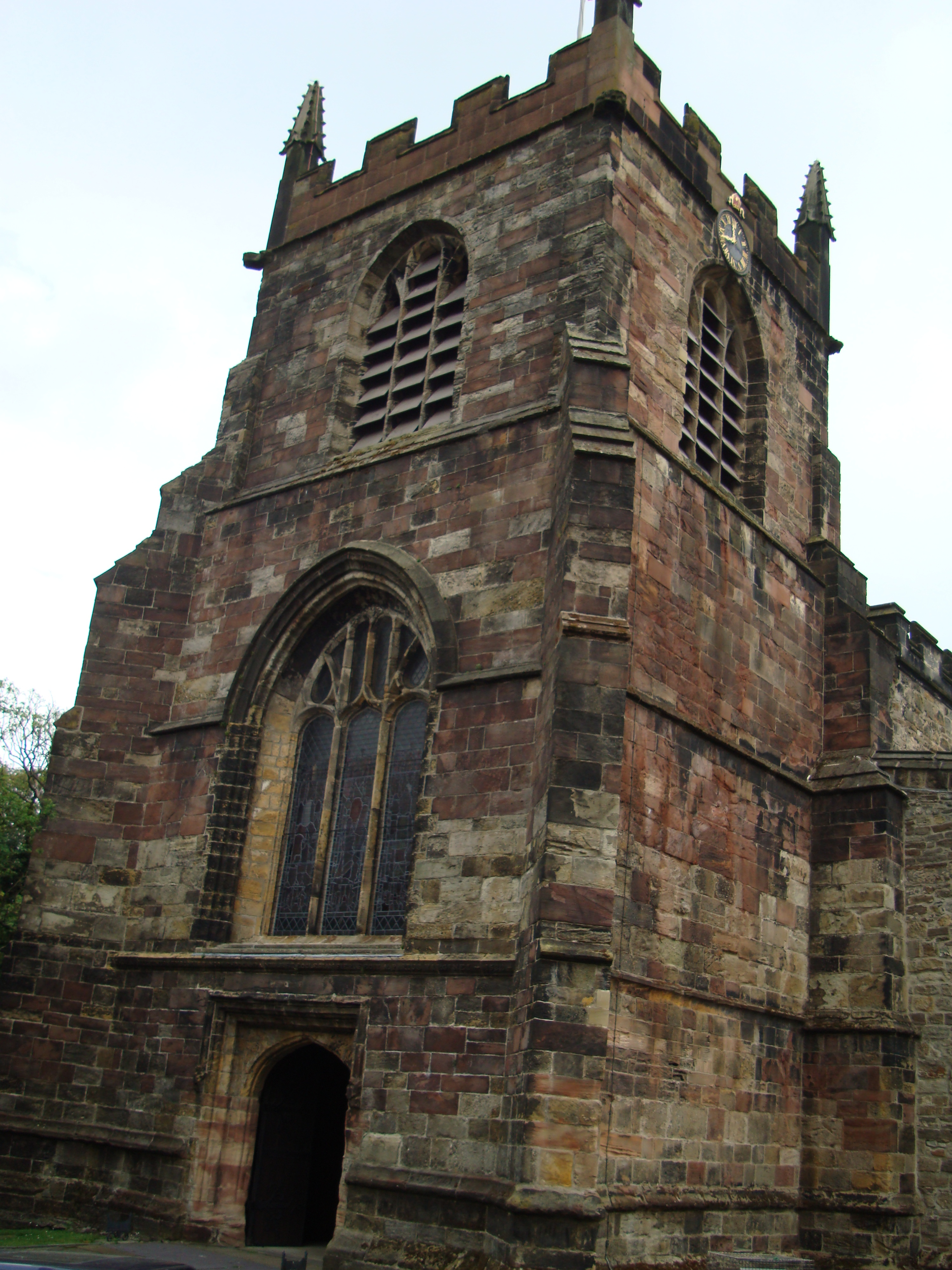 Photograph of Bangor Cathedral, Wales - West Tower